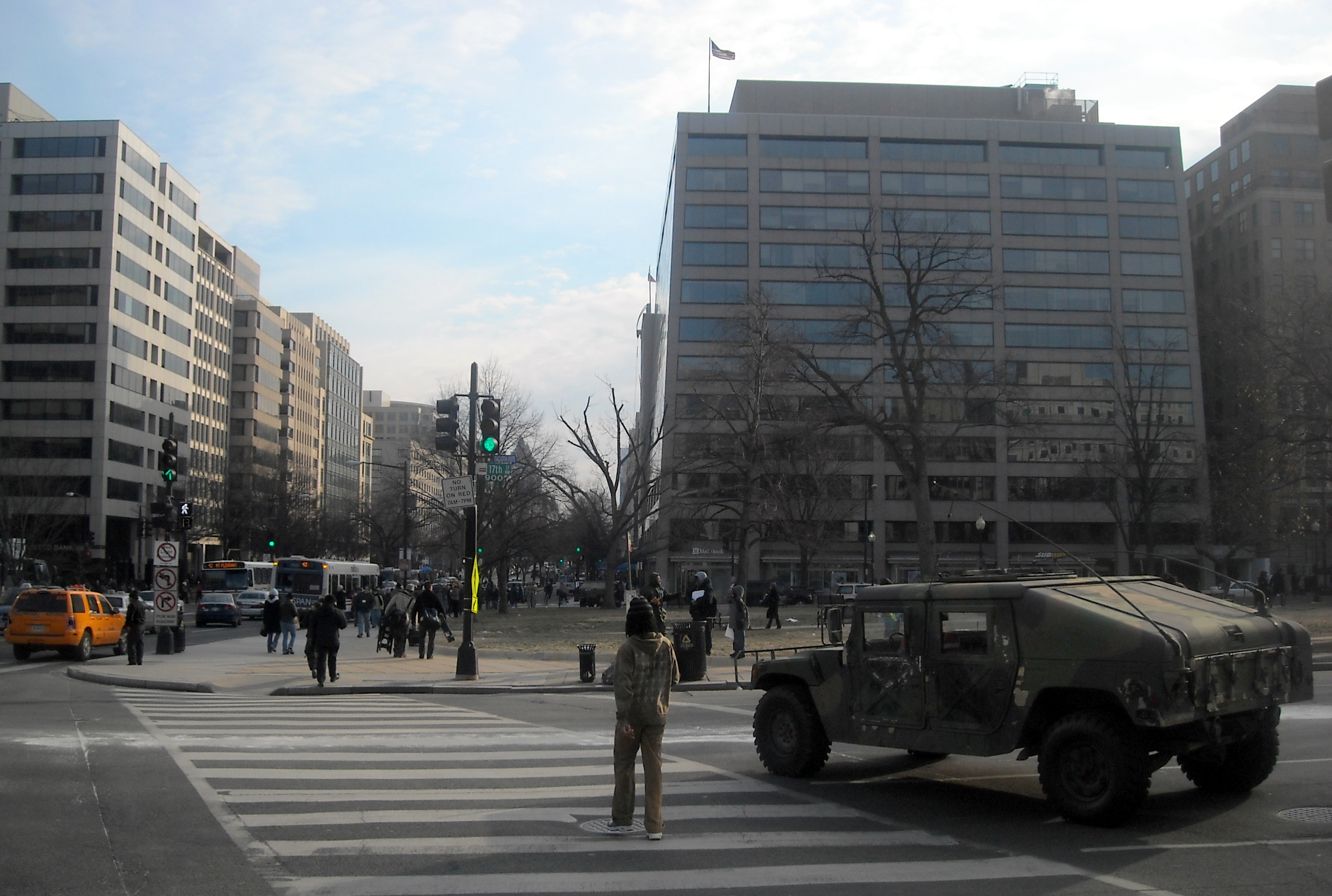 National Guard troops on K Street, NW in Washington, D.C. during Barack Obama's presidential inauguration.